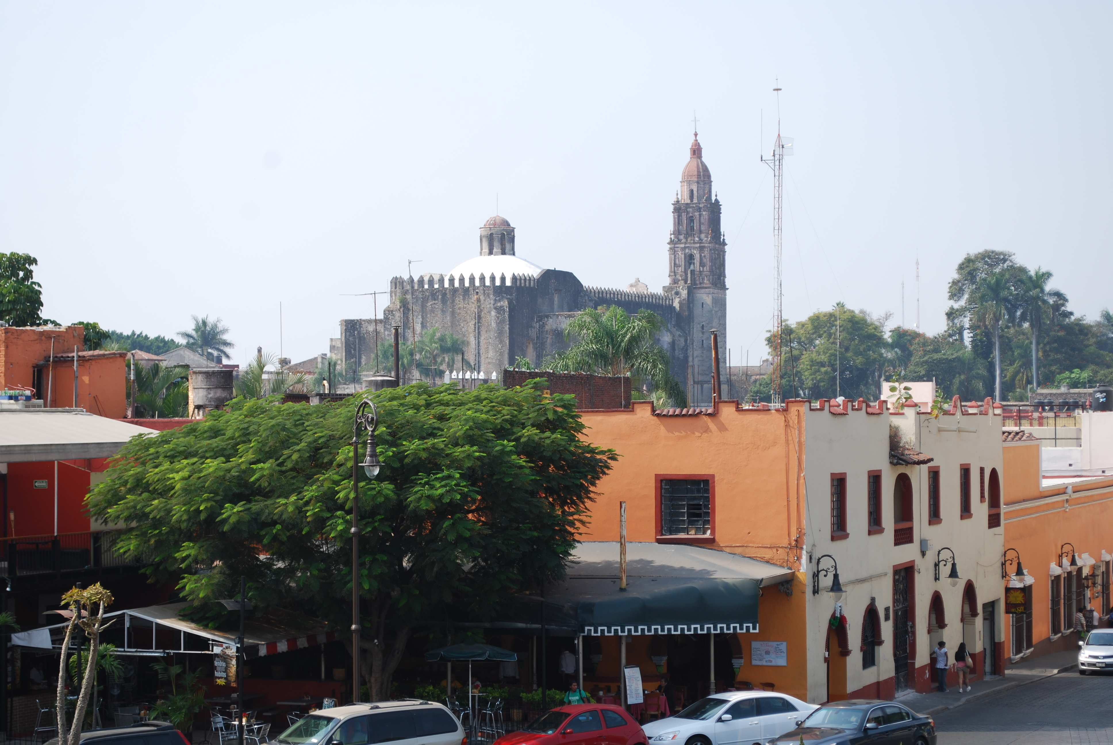 View of the back of the Cuernavaca Cathedral from the Palace of Cortes in Cuernavaca, Mexico